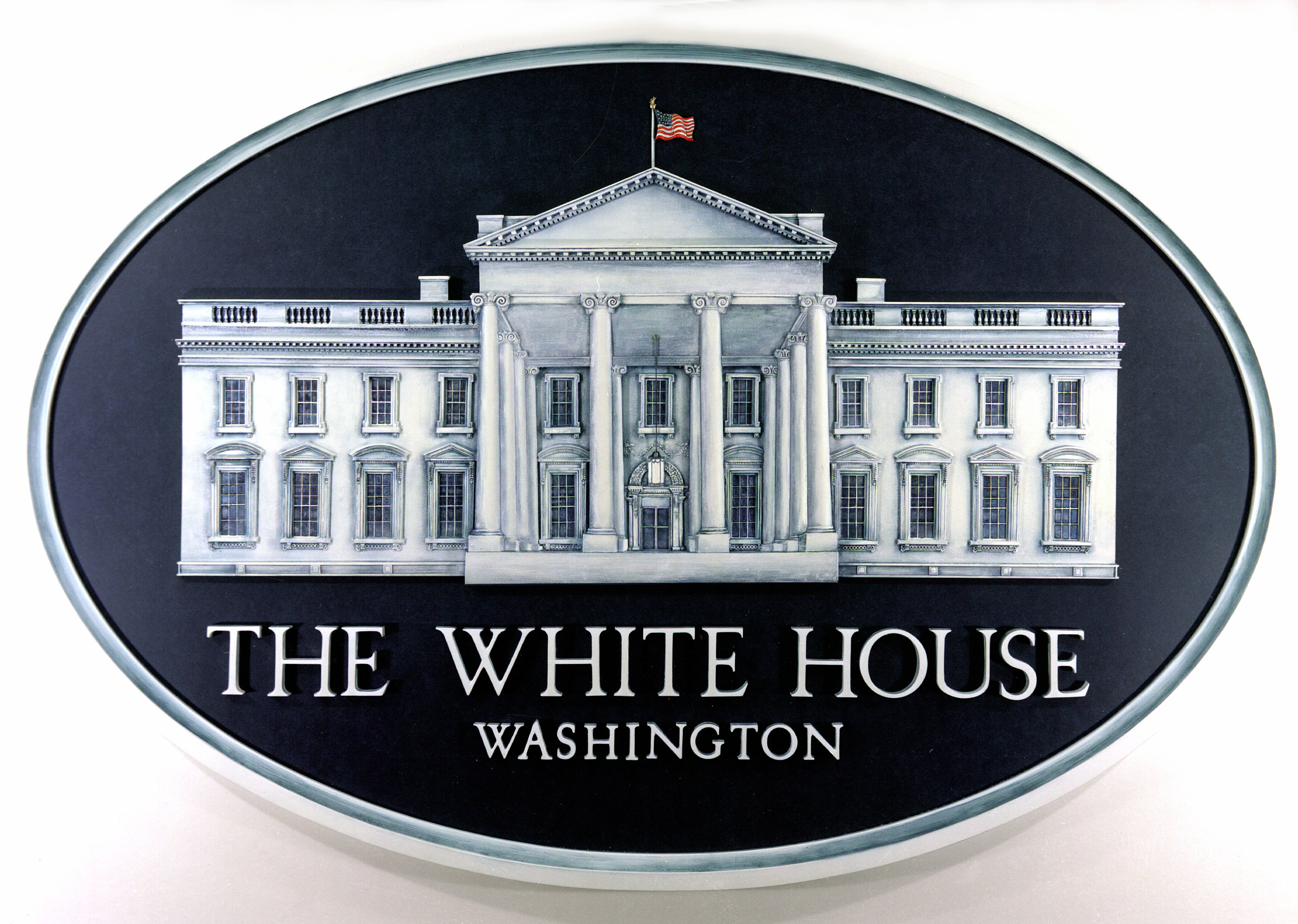 Backdrop emblem in the White House Press Room